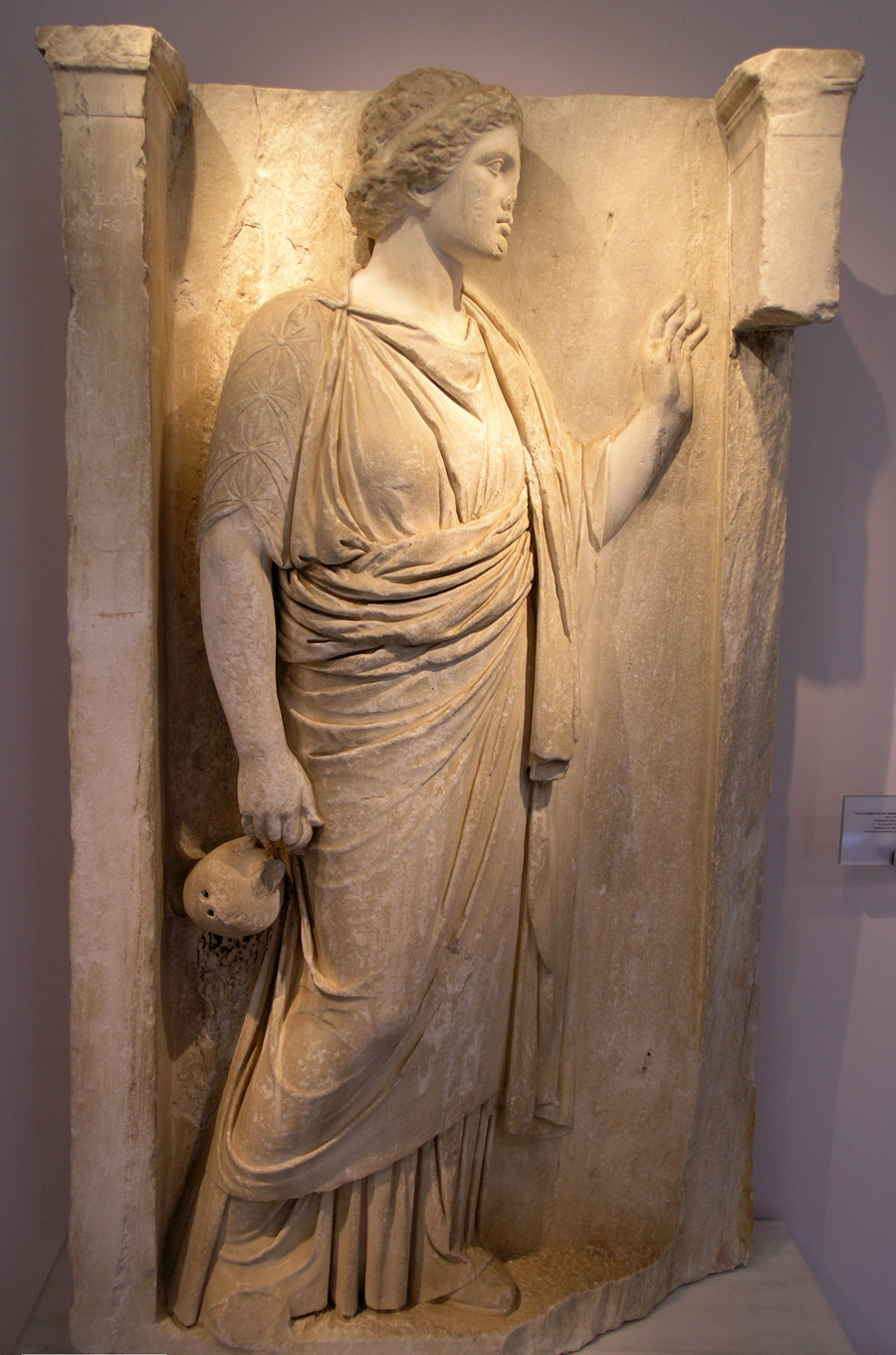 Funerary stele showing a "hydriaphoros" (a woman carrying water for religious komoi) (ca. 350 BC). Built into the enclosure wall of the Hekateion of Roman times. Exhibited at the Kerameikos Archaeological Museum (Athens). Picture by Μαρσύας (2005).